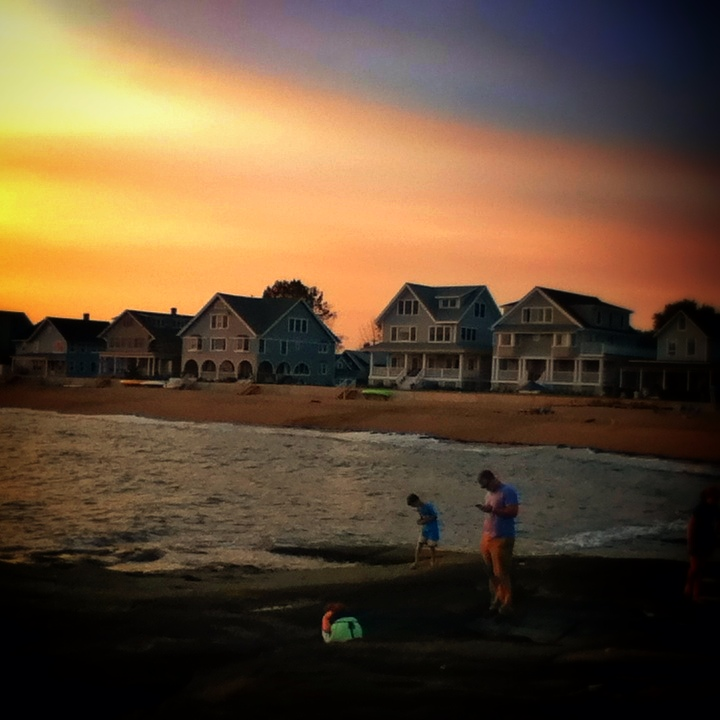 Cool Sunset